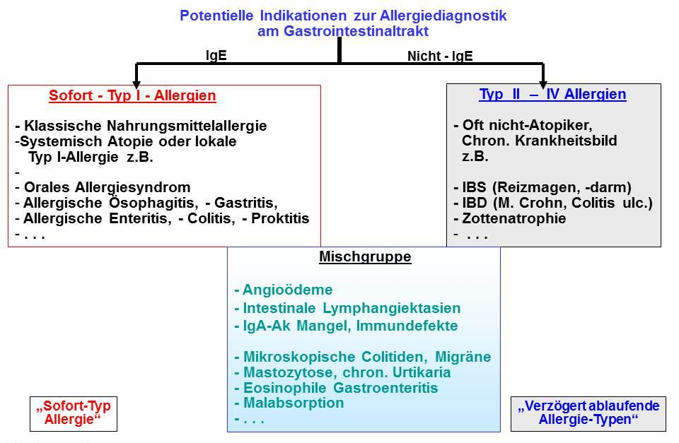 Indication for segmental guided gut lavage